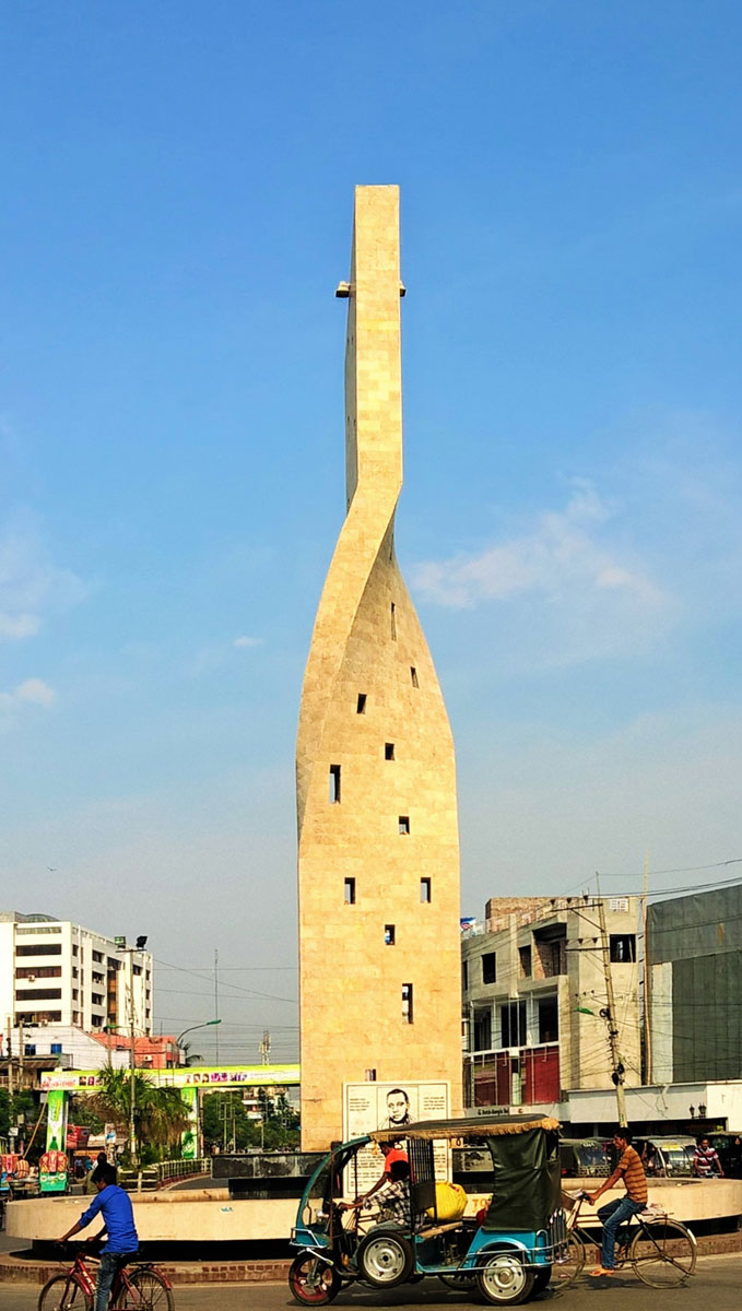 Kamaruzzaman Chattar is a crowded place in Rajshahi. Here is a statue after the name of Bangladesh's one of the 4 national leader AHM Kamaruzzaman Hena.